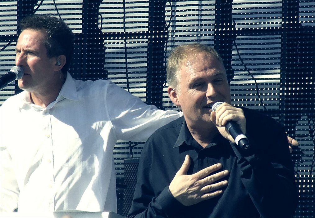 OMD -Orchestral Manoeuvres In The Dark- @ CORONA CAPITAL 2011 (left Andy McCluskey, right Paul Humphreys).